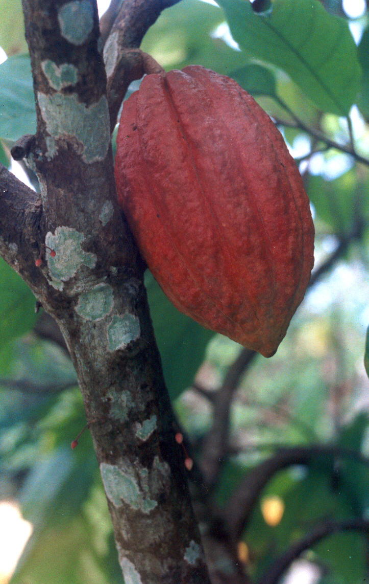 The cocoa nut grows directly from the trunk of the tree Theobroma cacao, native to the American tropics. Author Fev. August 2003. Photo taken at a farm near Curiepe (Miranda State, Venezuela)